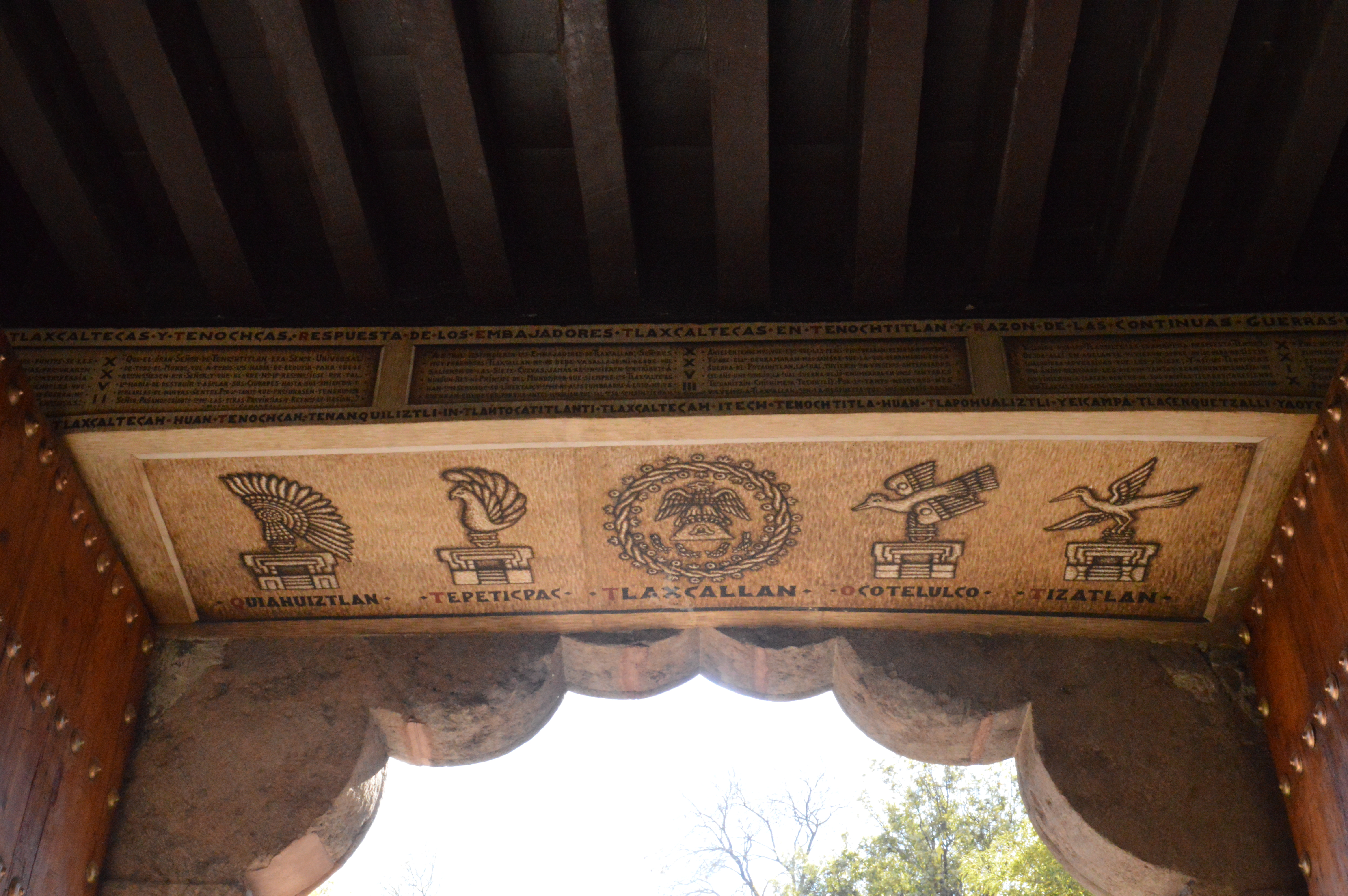 Section of mural done by Desiderio Hernández Xochitiotzin at the Tlaxcala State Government Palace in Tlaxcala, Mexico